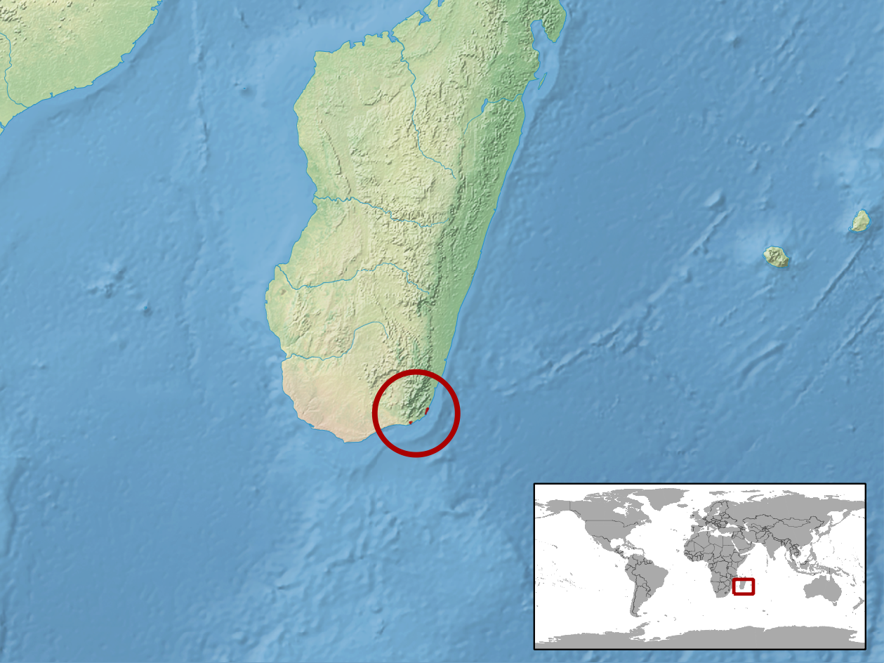 geographic distribution of Phelsuma antanosy (Native: Madagascar)